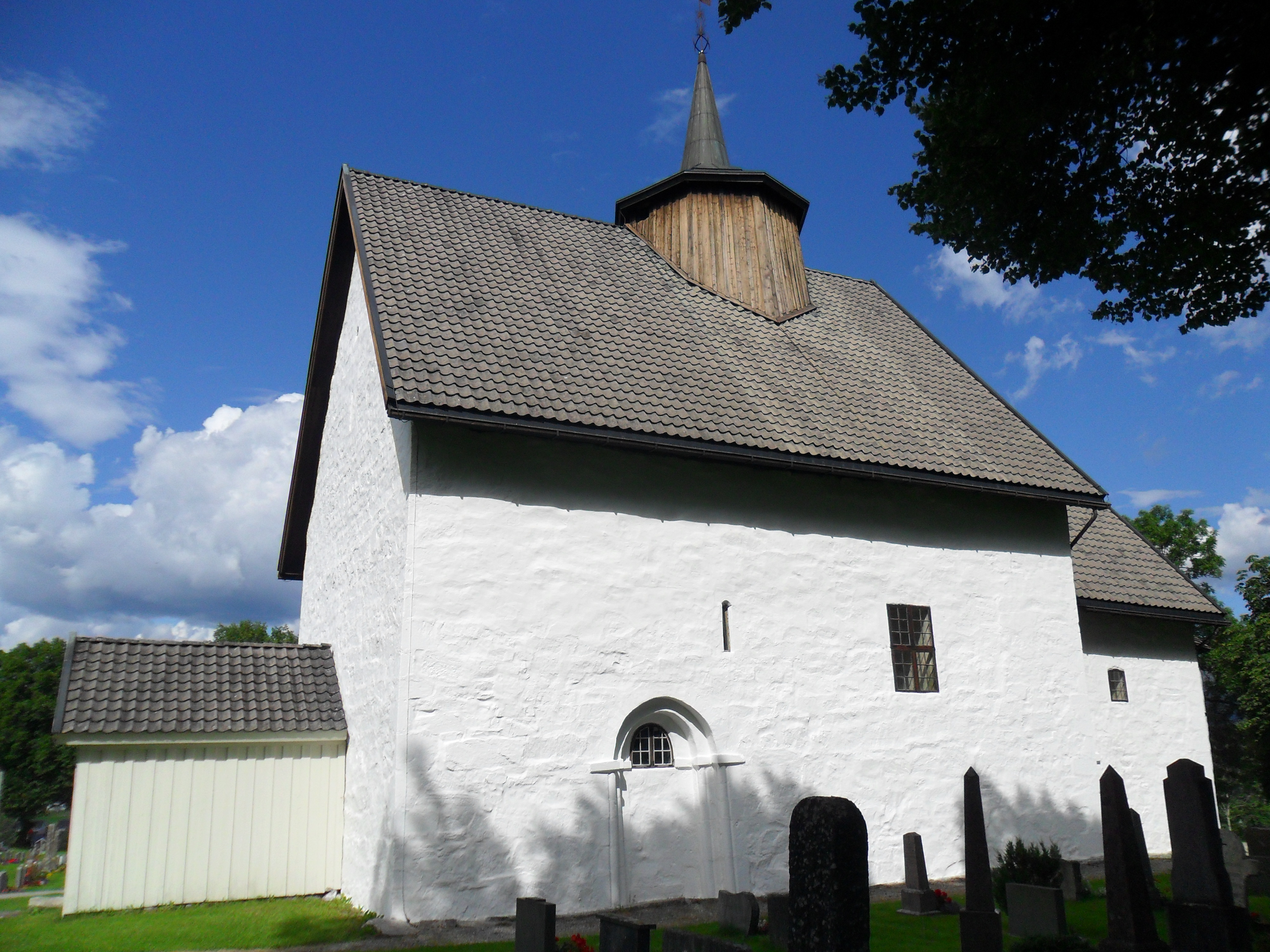 Bø old church in Bø county, Telemark, Norway